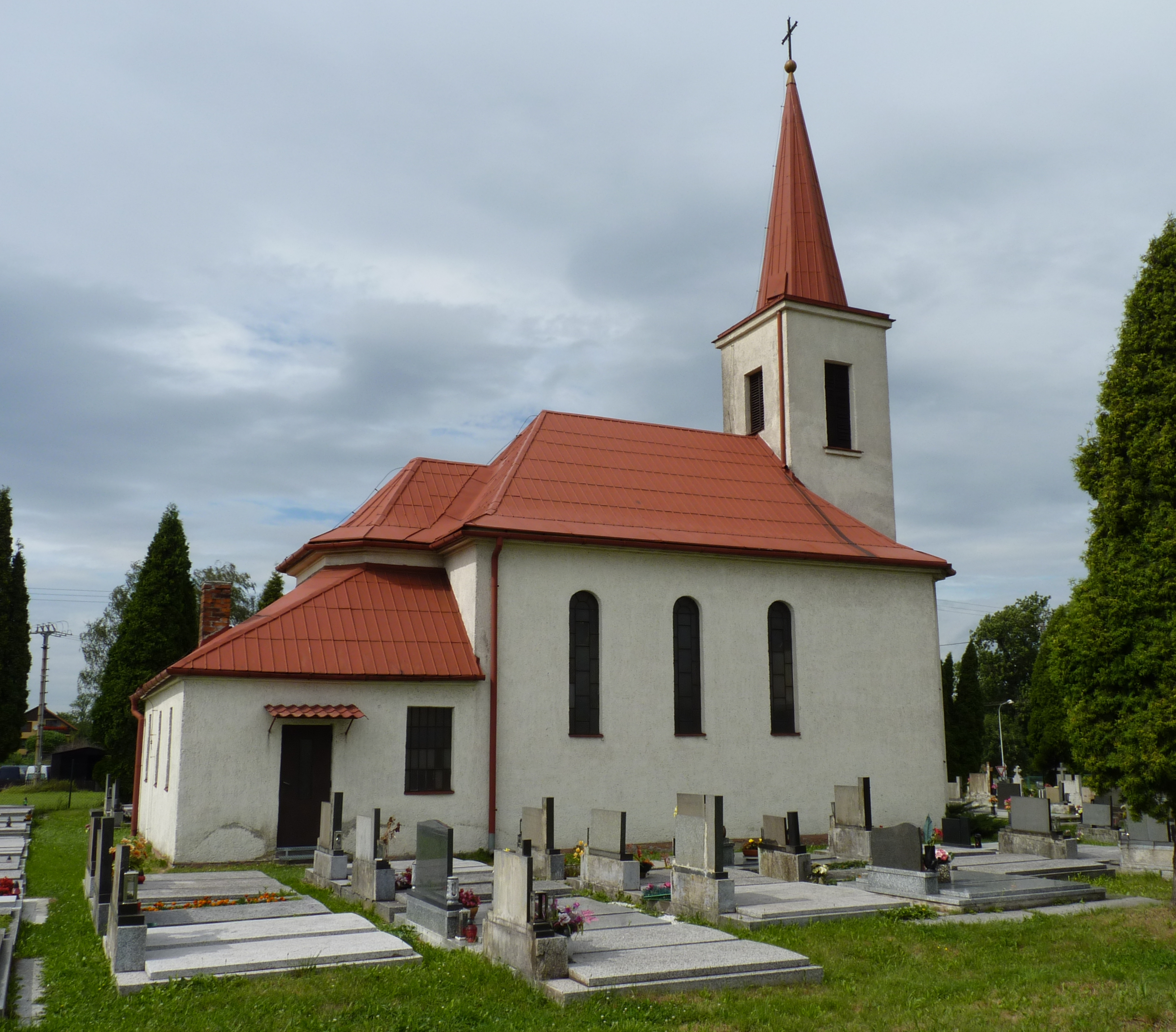 Catholic church in Chotěbuz. Karviná District, Moravian-Silesian Region, Czech Republic